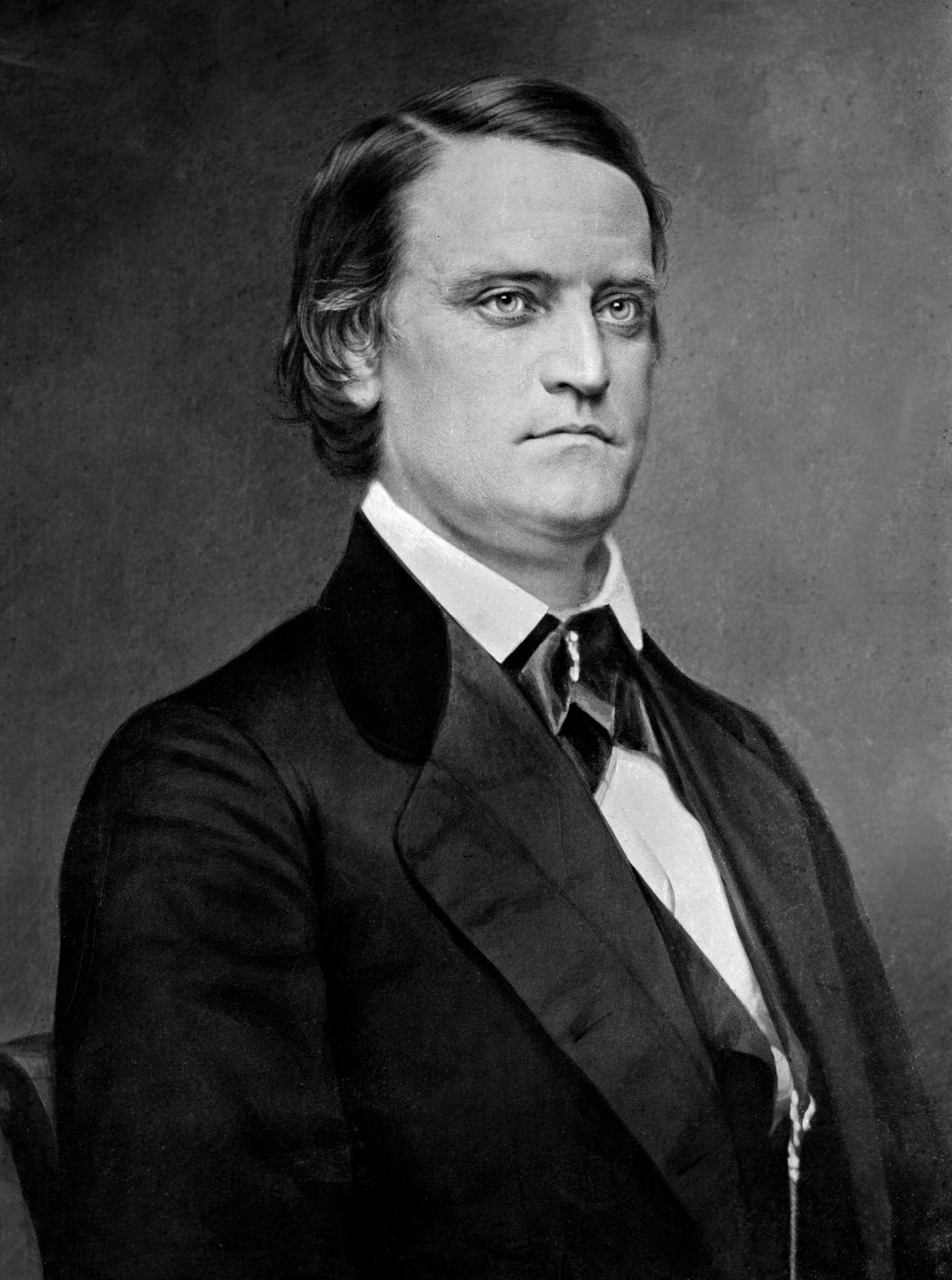 John C. Breckinridge. Library of Congress description: "Breckinridge, Hon. John C. Senator from Ky. General in CSA, Sec of War Confederate Cabinet" This is a retouched picture, which means that it has been digitally altered from its original version. Modifications: Scratches removed, cropped, brightness/contrast. The original can be viewed here: John C. Breckinridge - Brady-Handy.jpg. Modifications made by AJCham.